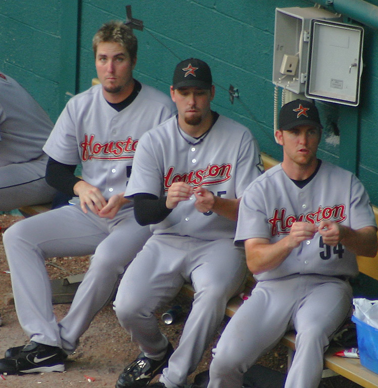 Chad Qualls (left), Dan Wheeler (center) and Brad Lidge move approved by User:Common Good